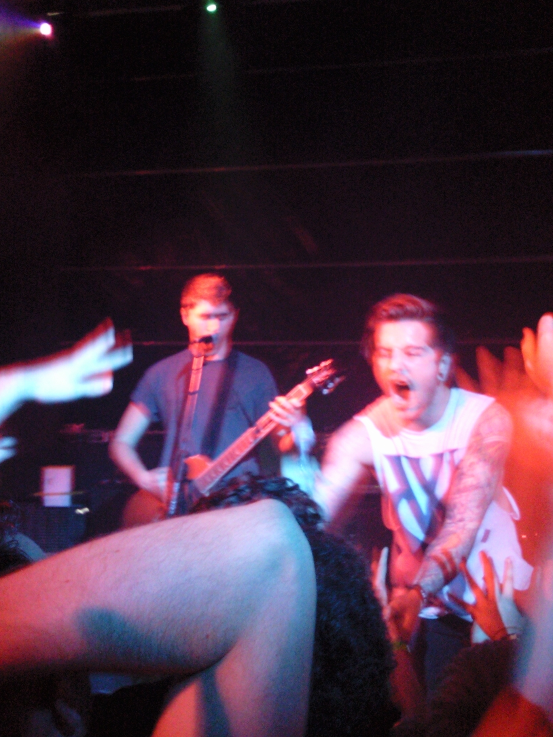 Bury Tomorrow's vocalists; Jason Cameron (left) Daniel Winter-Bates (right). In Southampton March 2012